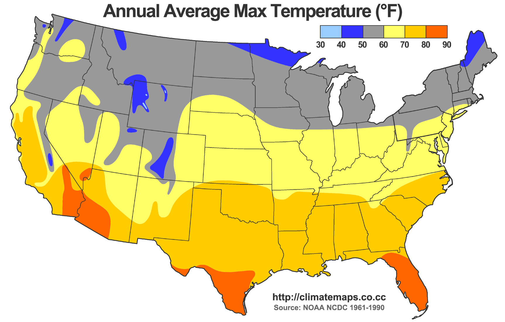 This map shows the average annual high temperature of the United States. The scale is displayed in units of degrees Fahrenheit, based on the following colors. Light blue: 30-40°F Dark blue: 40-50°F Gray: 50-60°F Yellow: 60-70°F Light orange: 70-80°F Dark orange: 80-90°F All data are based on the National Climatic Data Center 1961-1990 dataset. Map created by Alex Matus